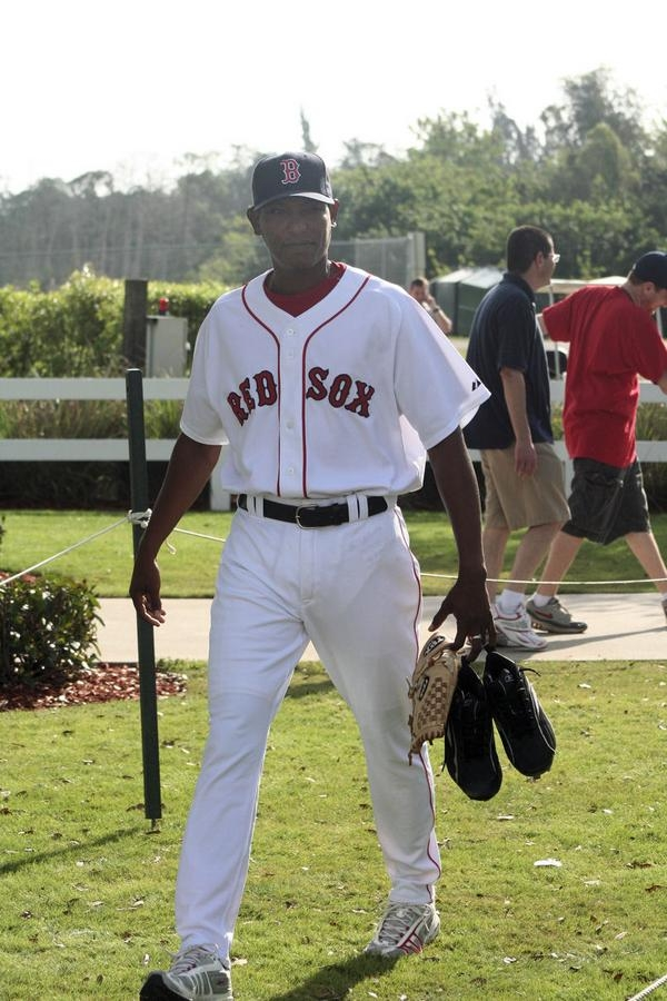 Devern Hansack in Spring Training